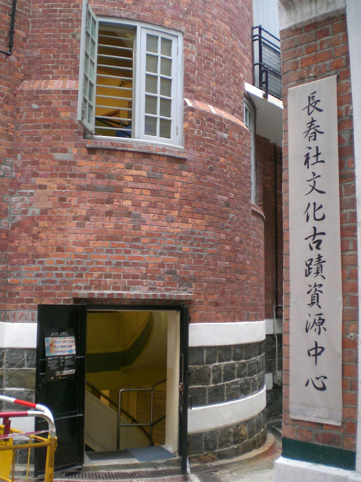 Western Street, Hong Kong, 西邊街 長春社 Photo author is me, User:Kwanyatsw